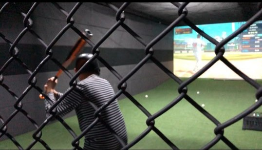 It is a complete view of the screen baseball field.